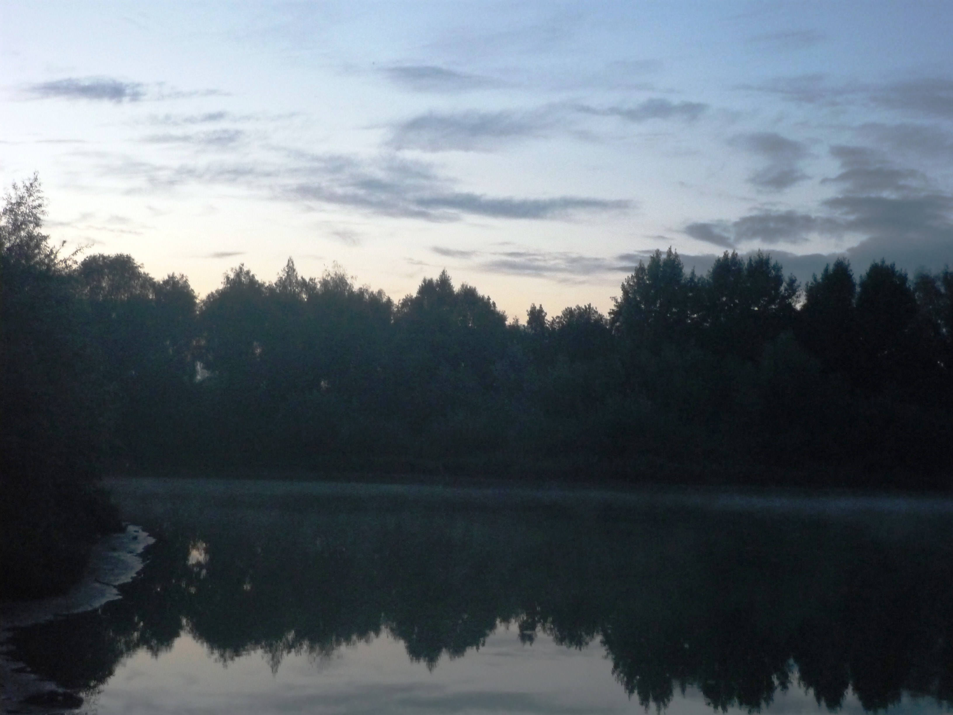 River Slovyanka, Sloboda, Ukraine, beginning of the XXth century